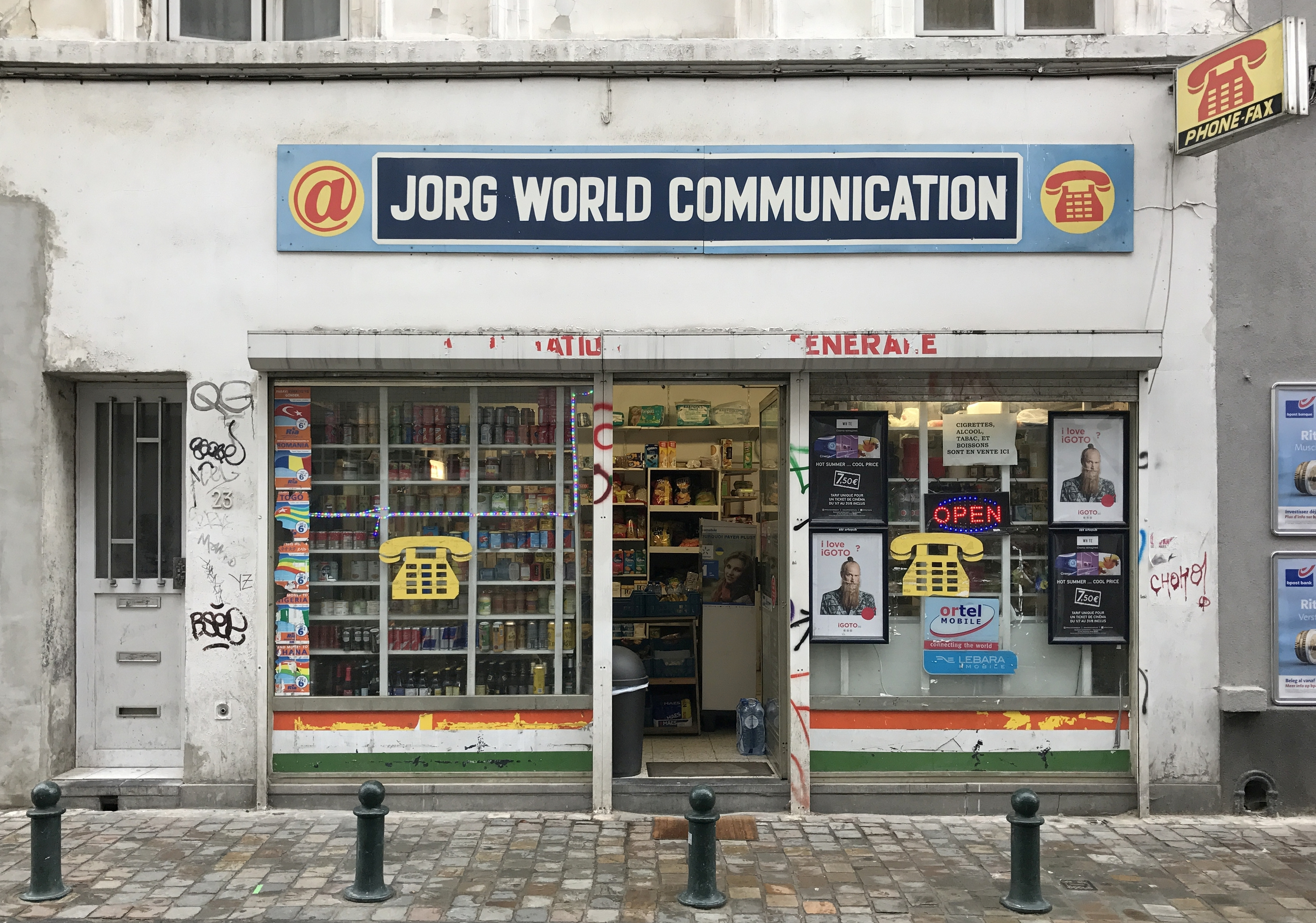 Shop in Brussels using the At sign as symbols for internet services offered